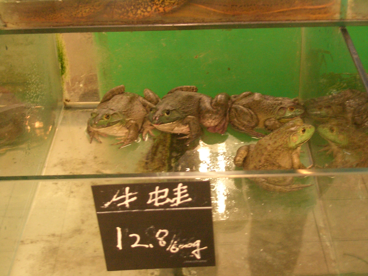 Bullfrogs for sale in a Shanghai supermarket. The price is Y12.8 per 500g, i.e. some $2 per pound